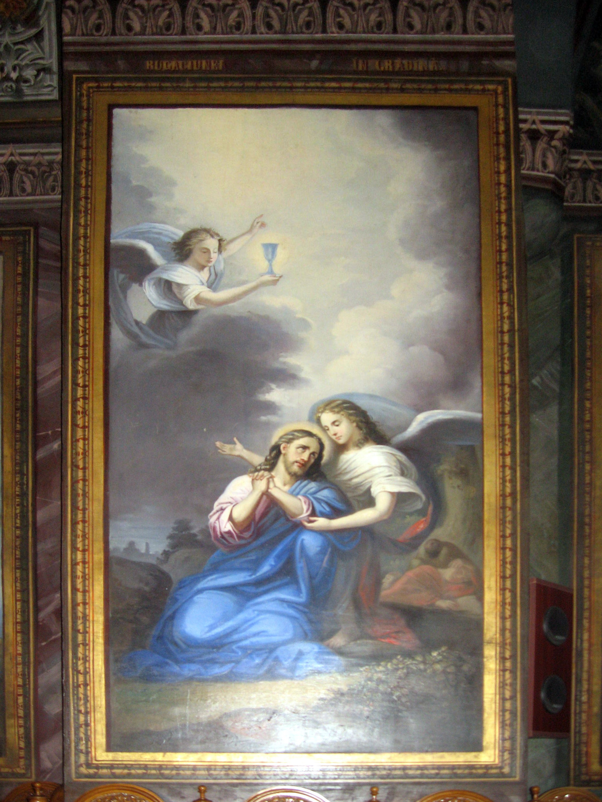 Picture on the walls of Agapia Monastery, painted by Nicolae Grigorescu (1838-1907)